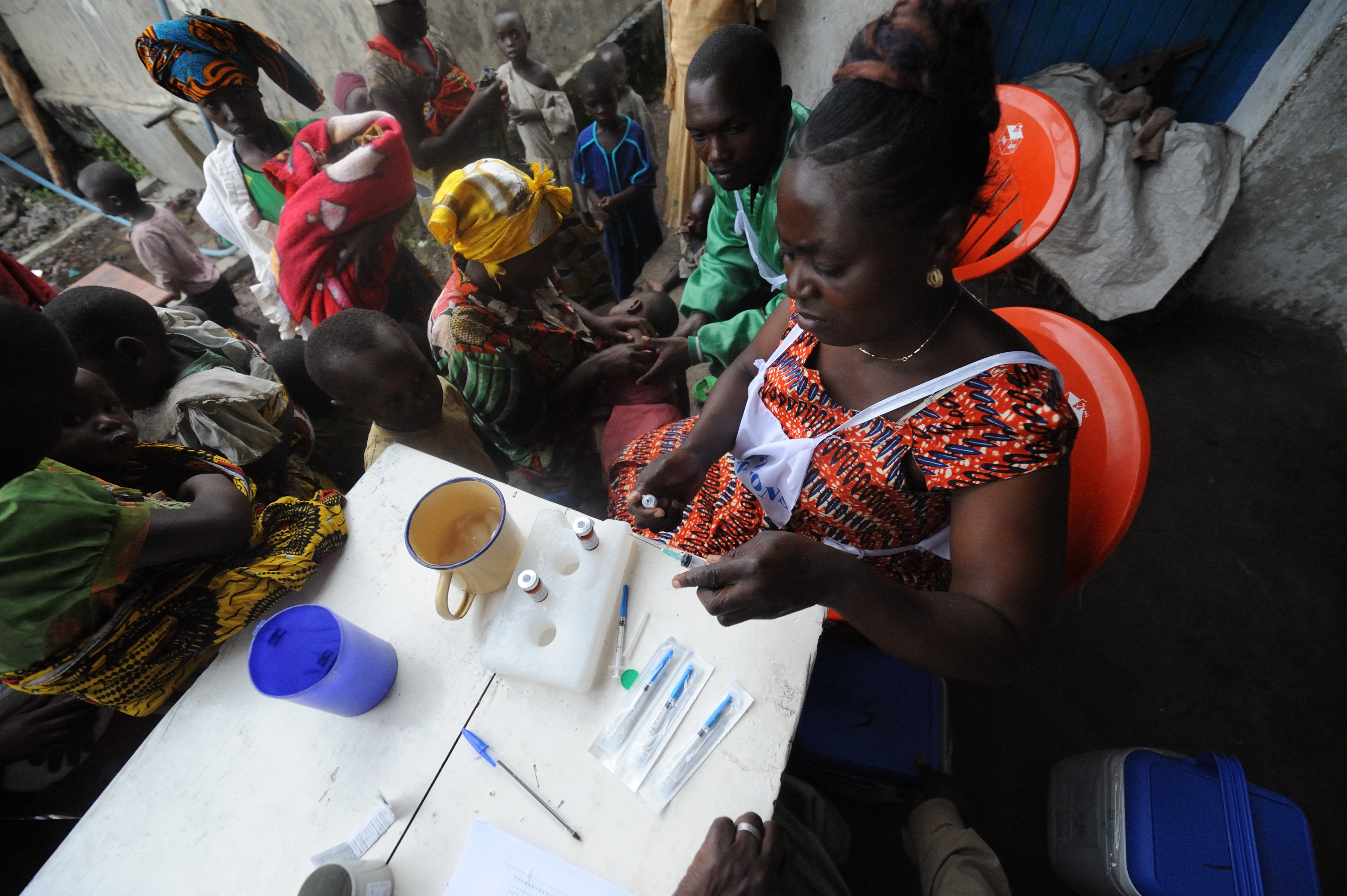 "I was on the outskirts of Kibati camp to oversee our emergency measles vaccination. It was in the same location as an ICRC WFP food distribution. We heard shooting the other side of the camp less than a kilometer away, single shots and automatic for about 15 minutes. People fled the distribution, ran to the camp picked up their belongings and hurried down the hill to Goma. A crowd gathered around an abandoned food truck and started to loot it until government military police came in to restore order. As we drove back more than 200 very tense government troops trudged up the hill, announcing worse to come." - author